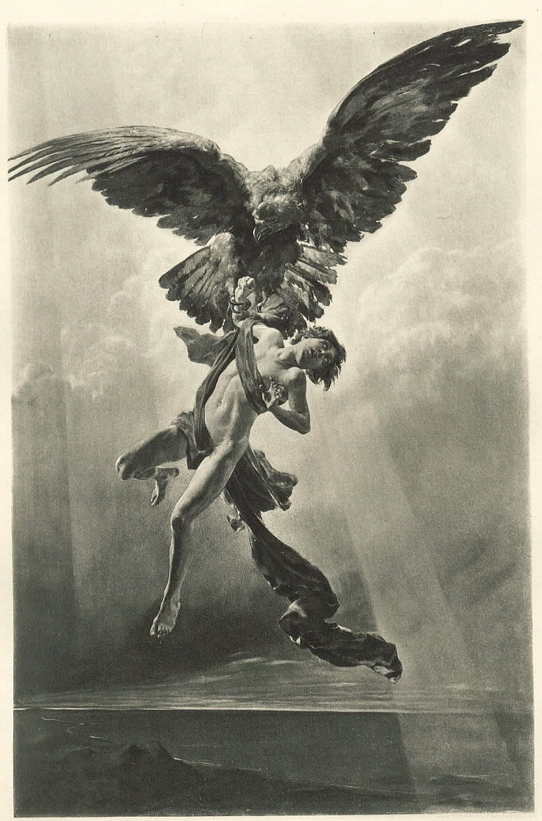 F. Kirchbach (engraving after), (1892) - The rape of Ganymede, Palazzo Grimani, Venice